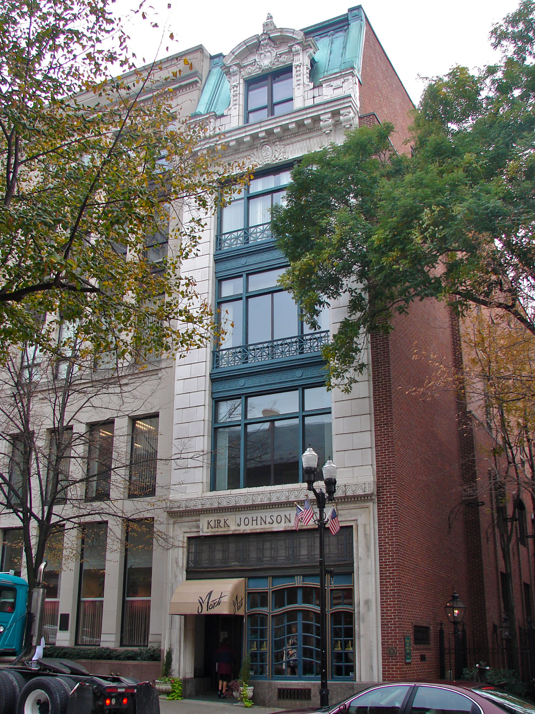 Kirk Johnson Building (music store) on the NRHP since July 7, 1983. At 16–18 West King Street in the Central Business District of Lancaster, Pennsylvania.